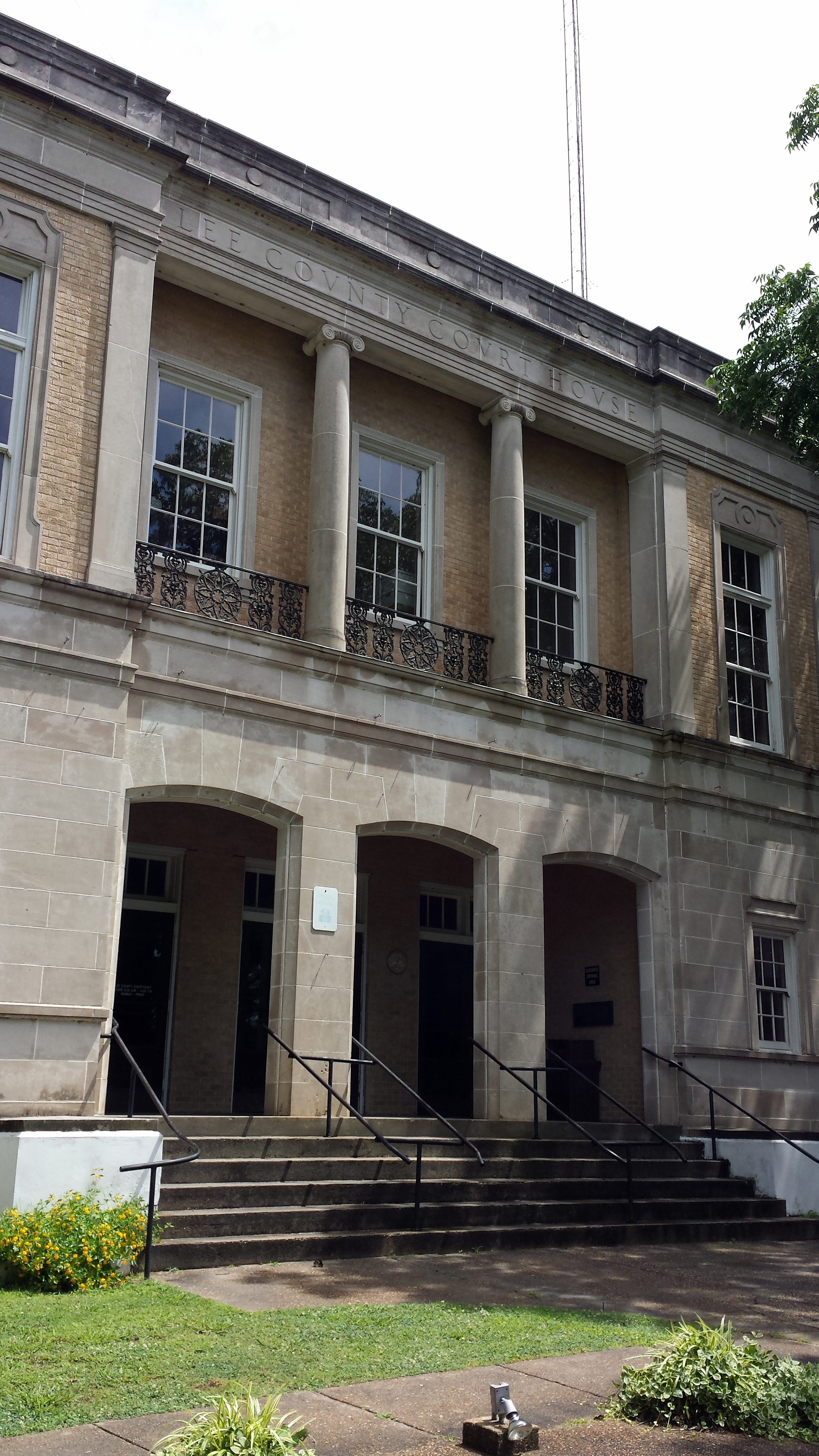 Facade